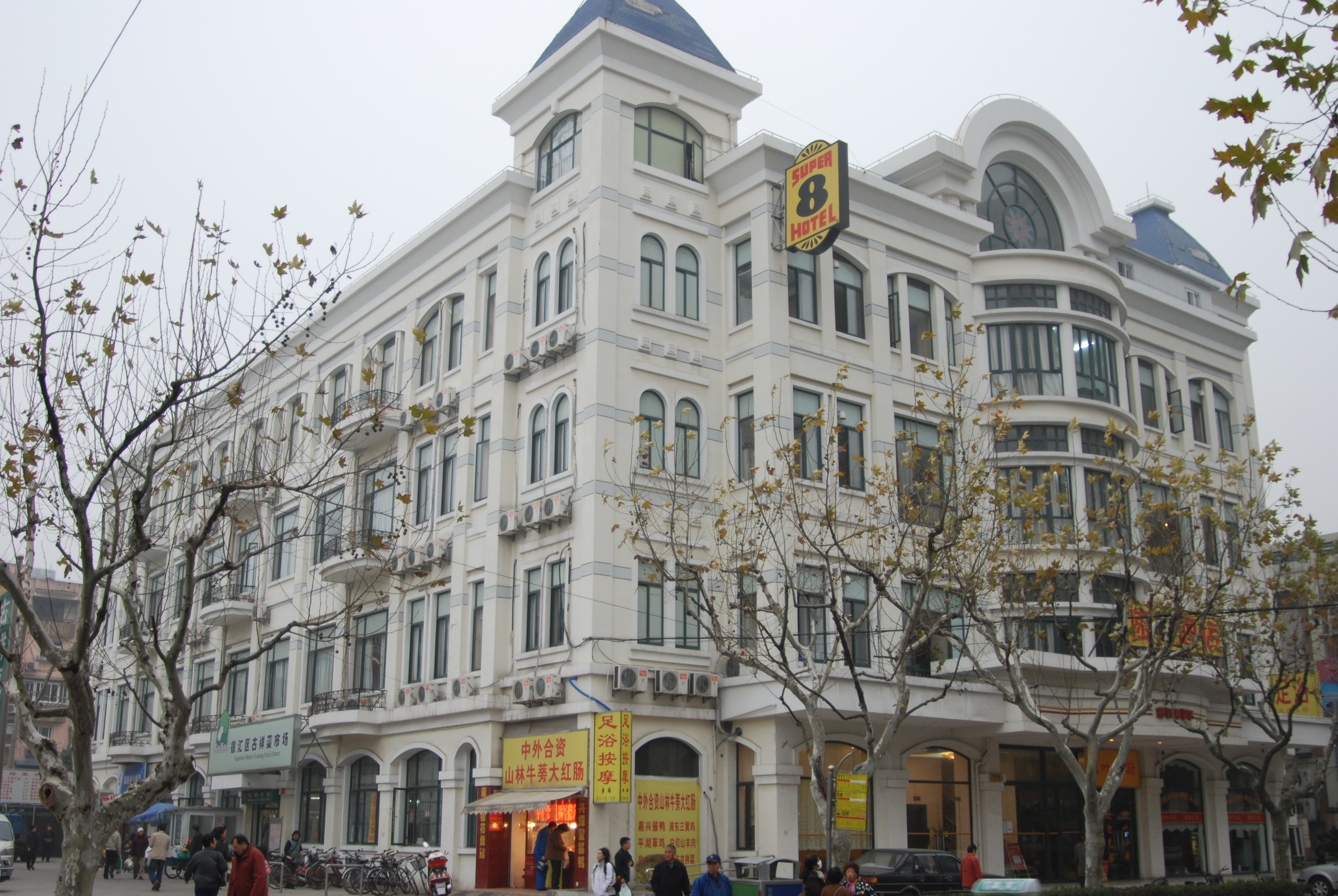 Luoxiang Road Super 8 hotel